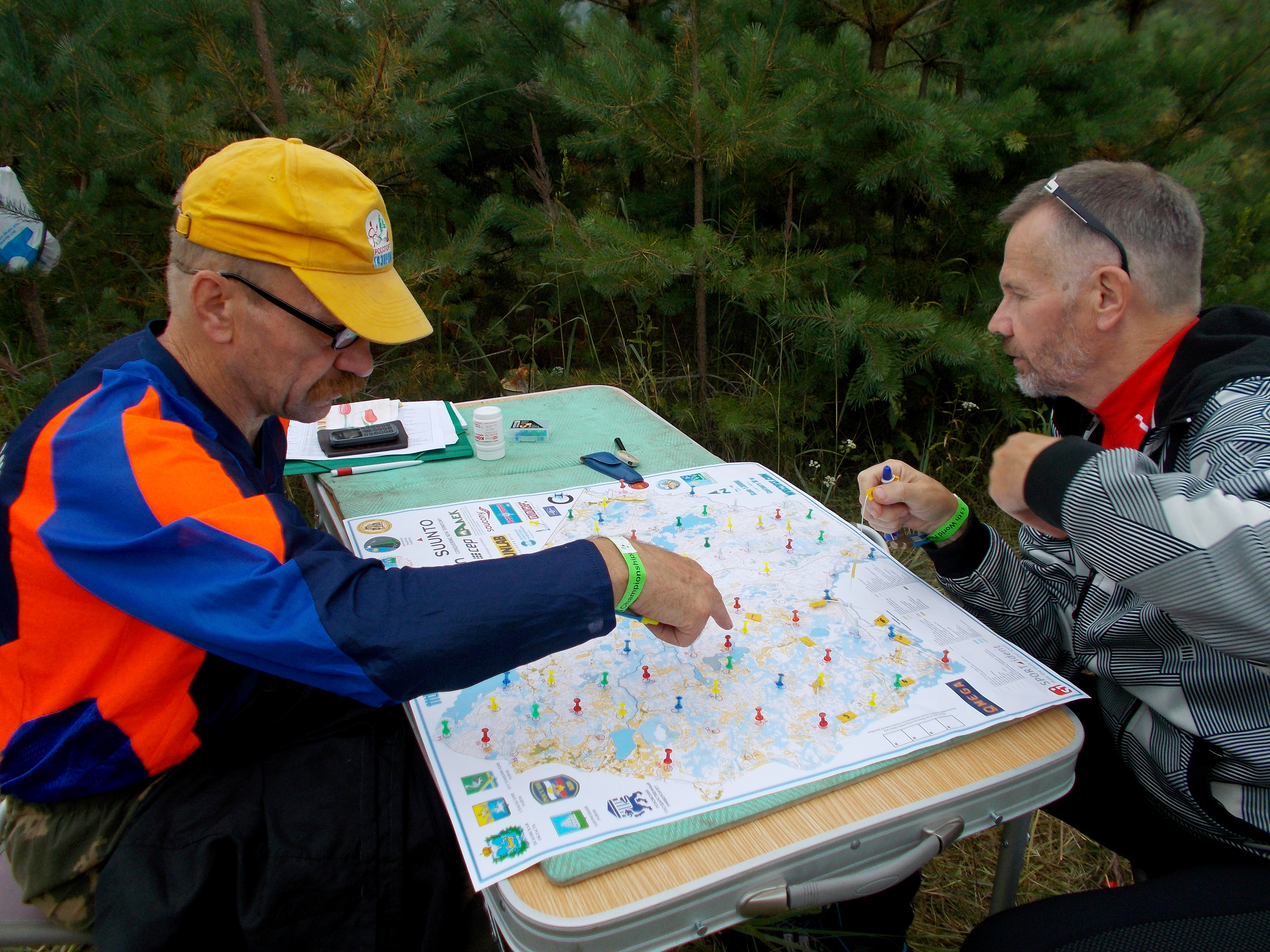 Planning of team route on 11th World Rogaining Championships 2013 (26 - 27 July 2013, Pskov Oblast, Russia)